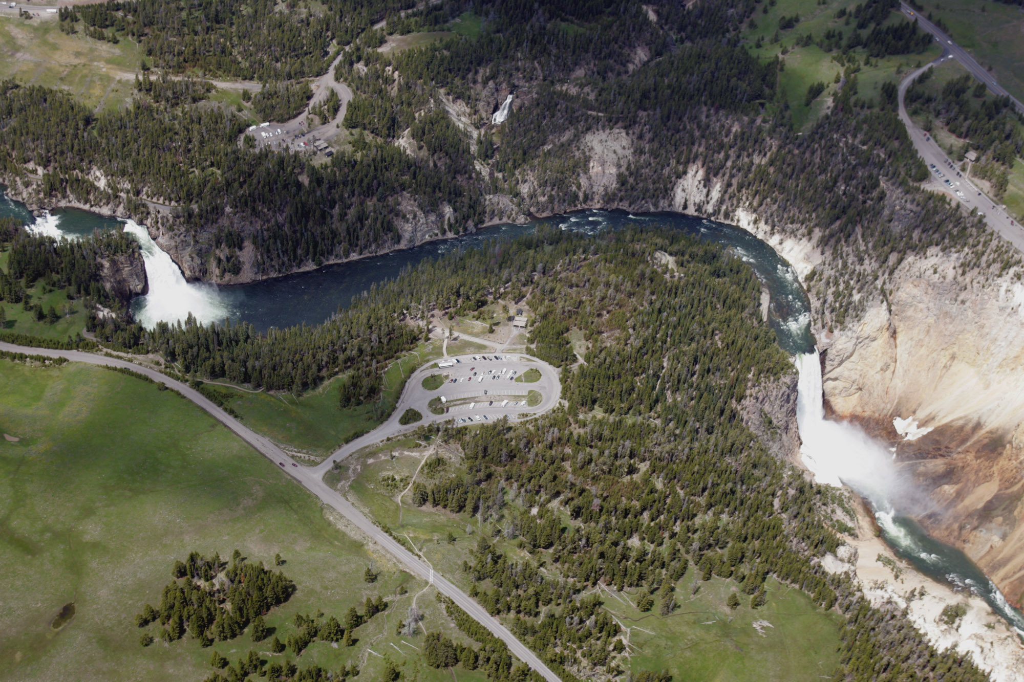 Aerial view of Upper Falls, Crystal Fallls, and Lower Falls of the Yellowstone; Jim Peaco; June 2005; Catalog #18400d; Original #IT8M3767